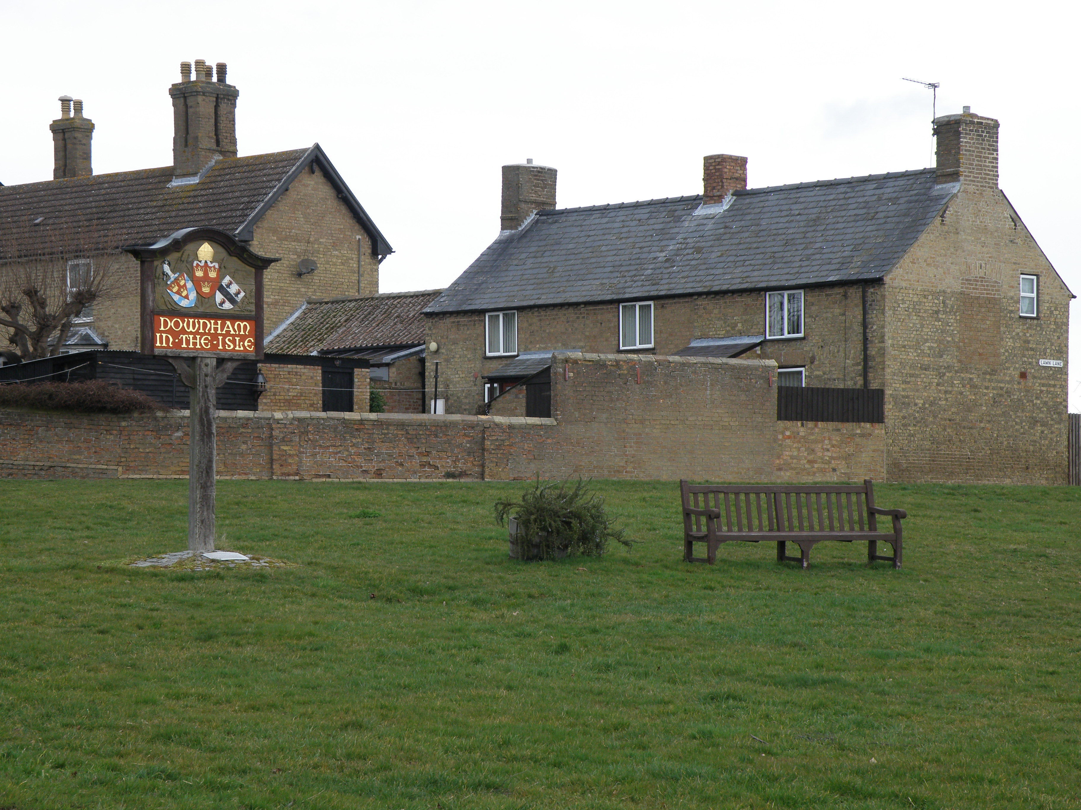 Village sign in Little Downham. Using the historical name of Downham in the Isle the village sign is located on the green at a busy road junction.